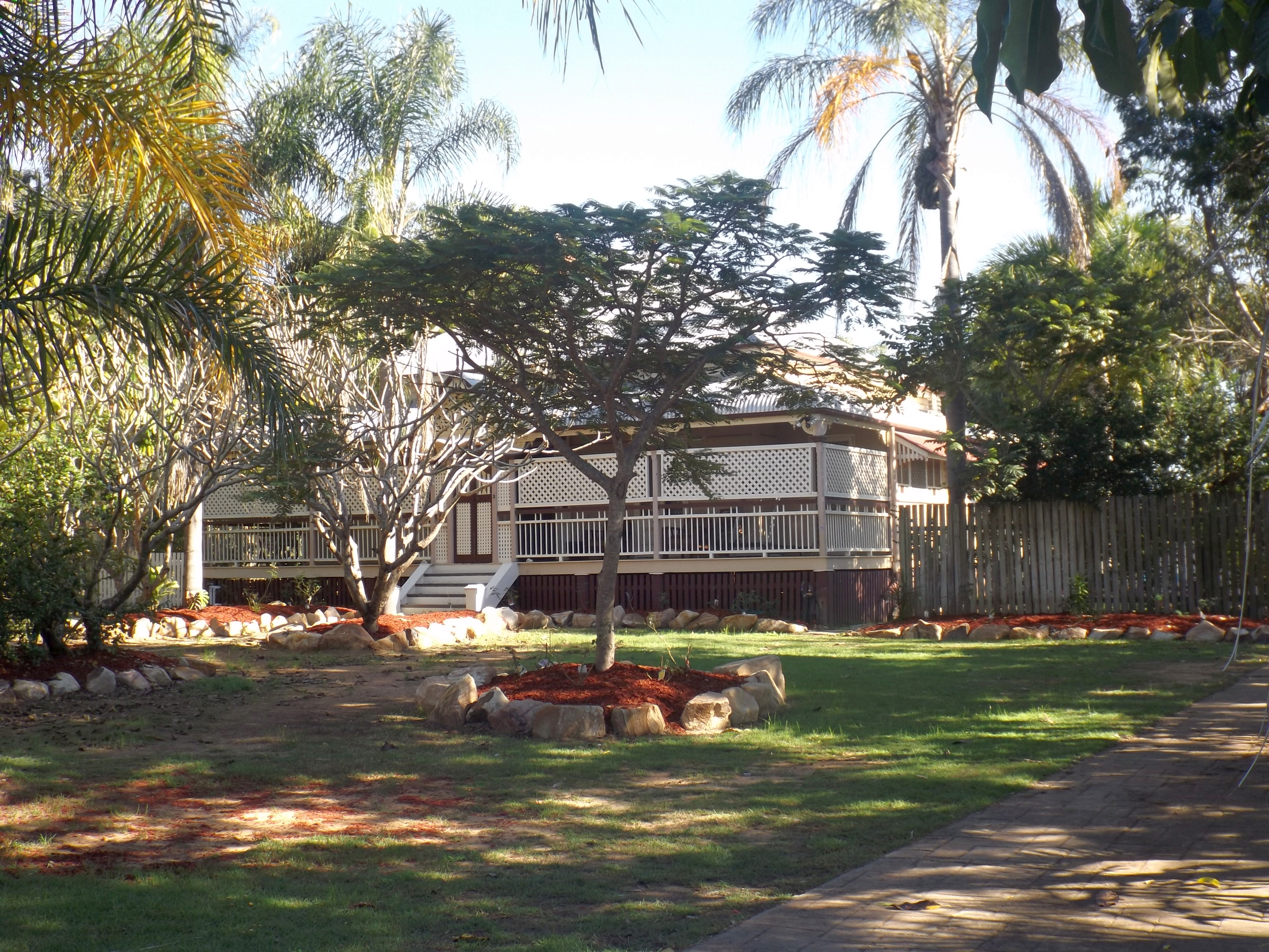 Photo of Wrightlands residence at the Wright Family Houses at 106 Mt Crosby Road Tivoli, Ipswich Queensland, Australia.